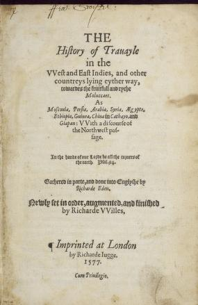 An early published text dealing with prospective travel in the late 16th century, including an early dated mention of Giapan (Japan). This edition was made in 1577 but was printed between 1555 until 1599. Some were later compendiums of earlier travel writing from Richard Eden’s Decades of the Newe Worlde (1555).